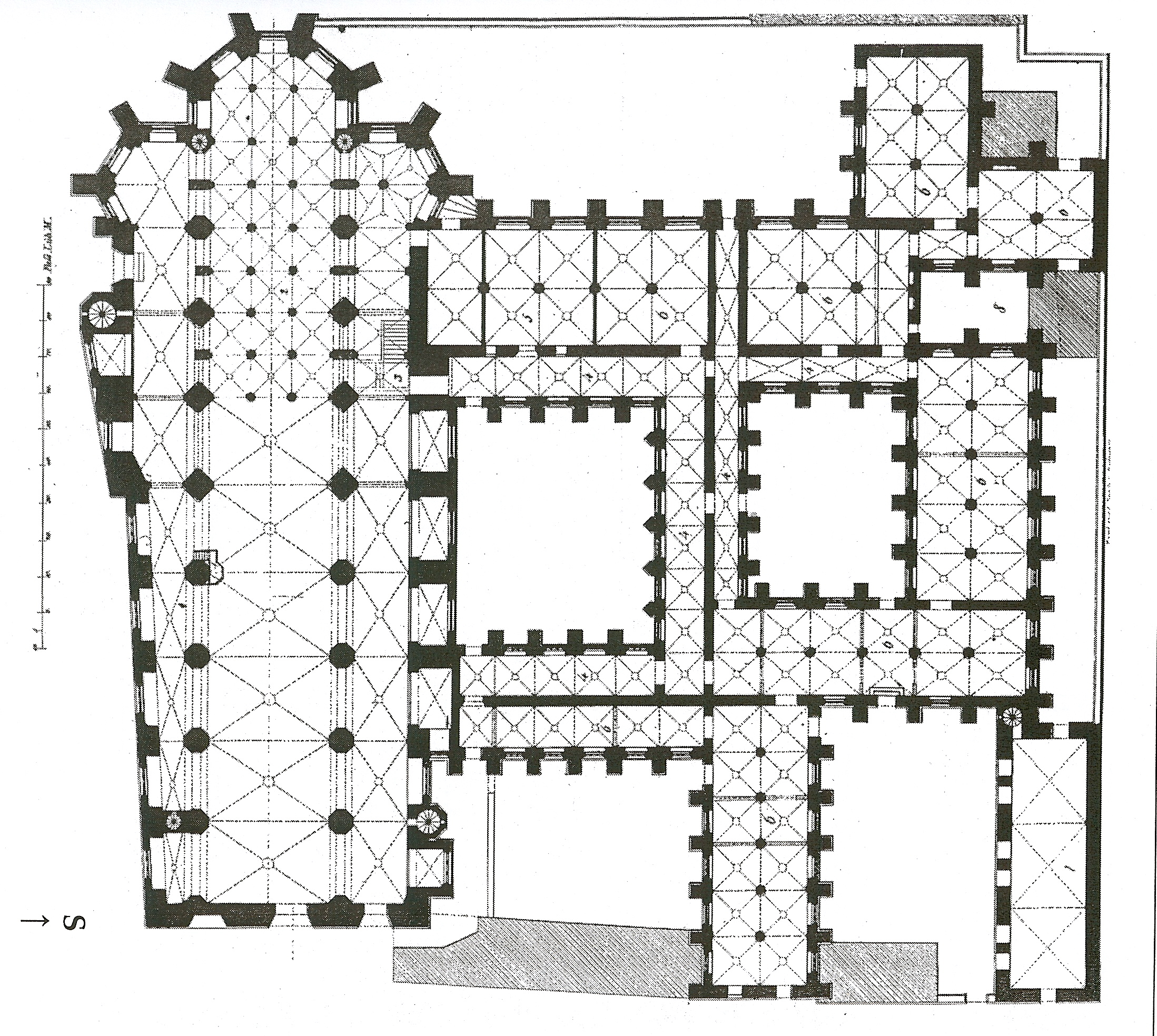 Plan of St. Catherine's monastery (OFM) in Lübeck